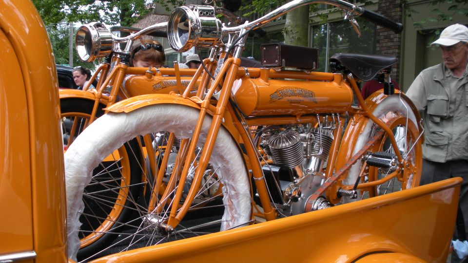 Photo taken at the Greenwood Car Show in Seattle Washington.